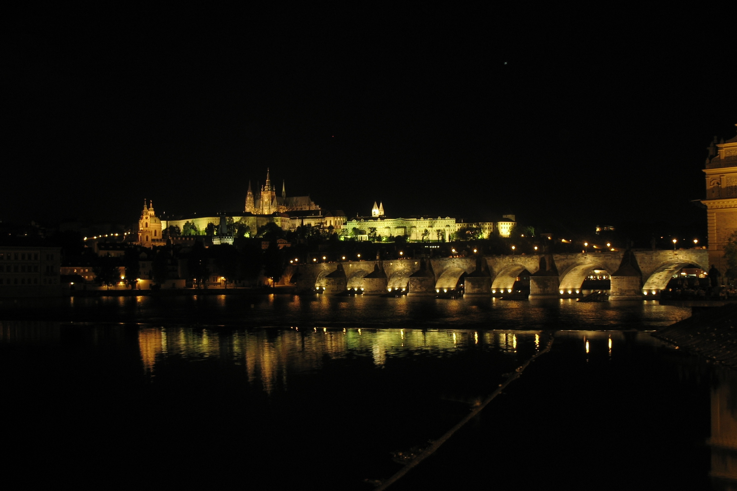 Prague castle and Charles Bridge by night